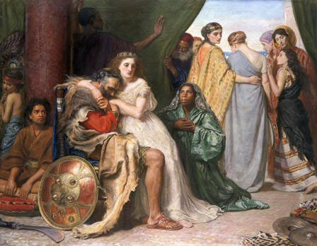 Jephthah